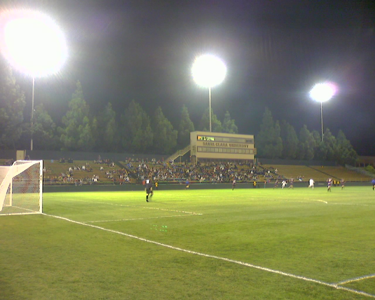 Buck Shaw prior to 2008 renovation during the 2007 NCAA tournament